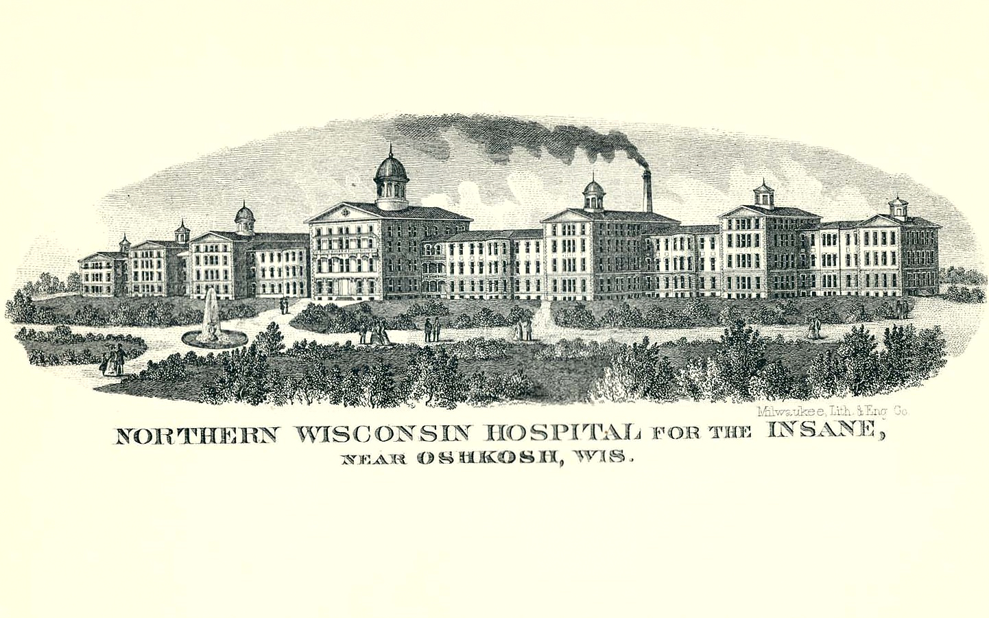 Illustration of the Northern Hospital for the Insane, from the 1885 Wisconsin Blue Book.